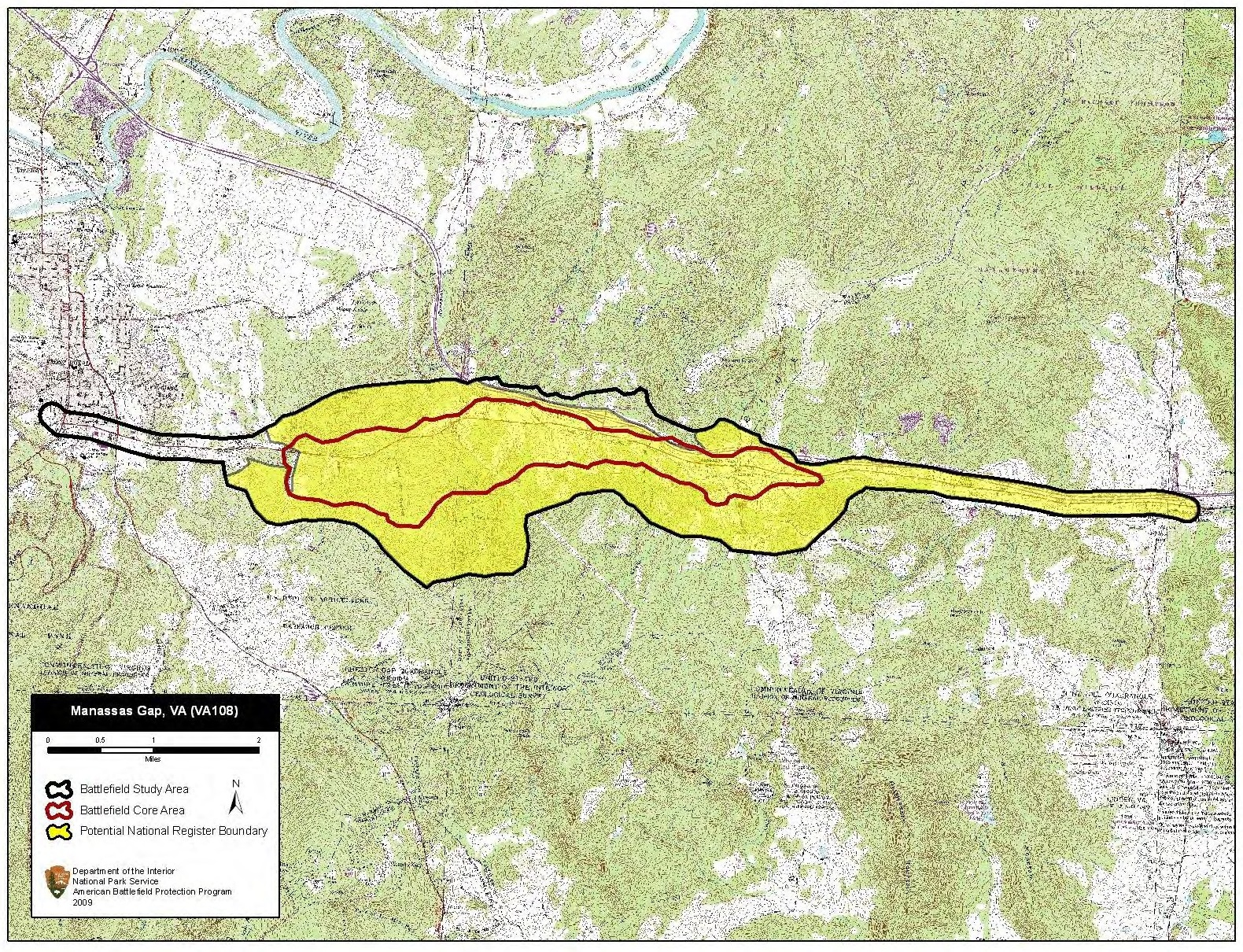 Map of battlefield core and study areas. Reference USGS topographic map Linden, Virginia.